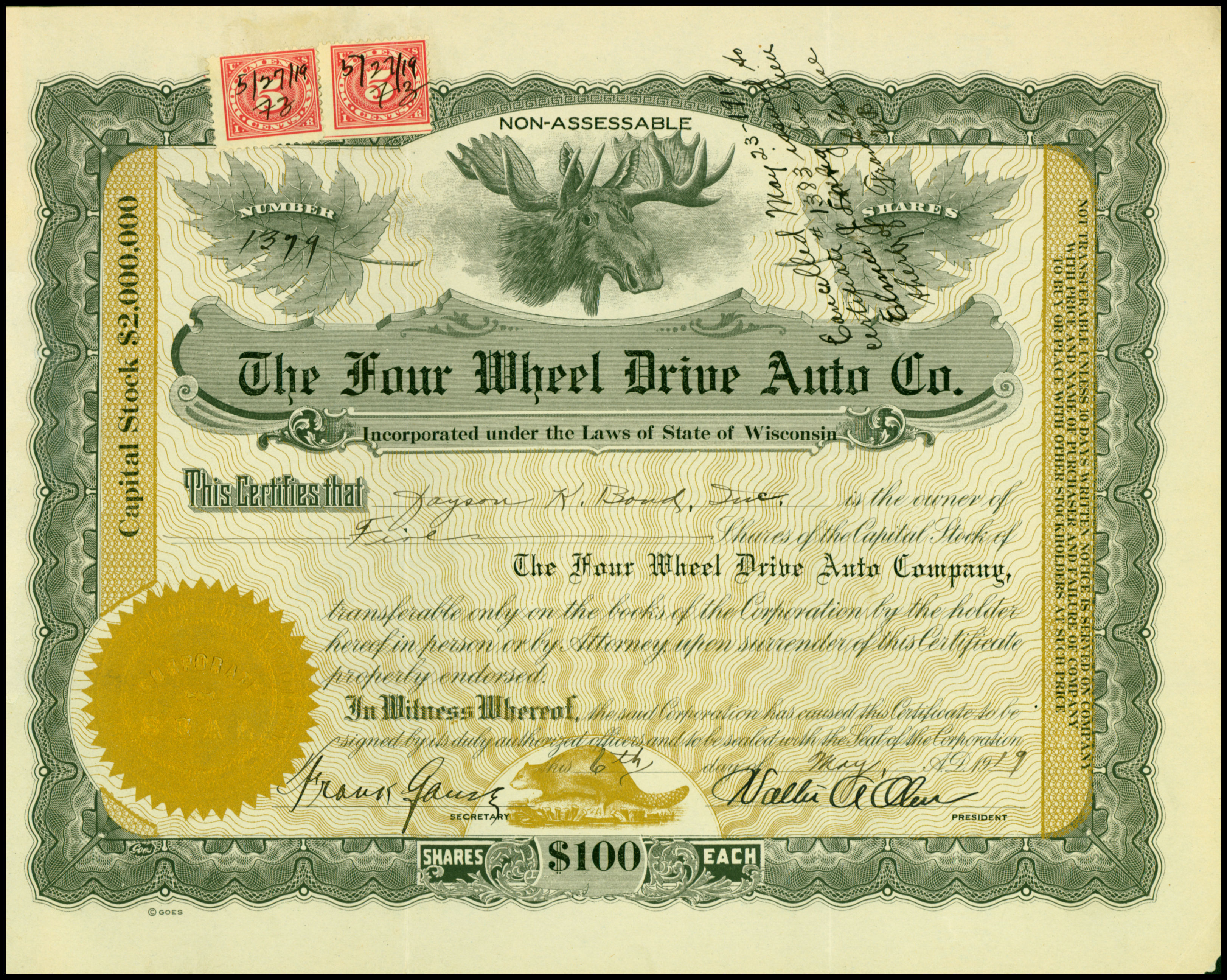 Share of the Four Wheel Drive Auto Co., issued 6. May 1919